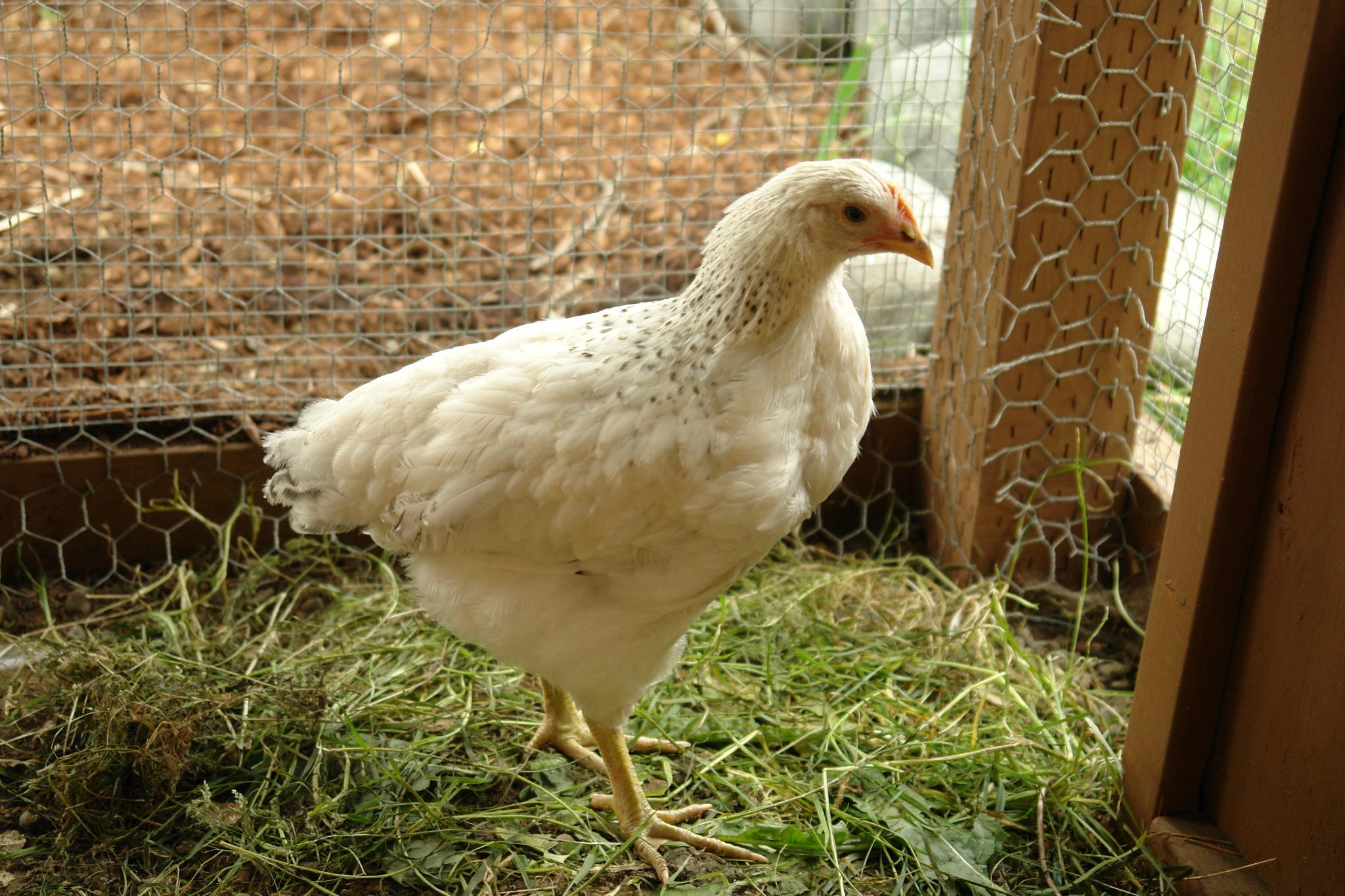 A Delaware pullet, about 7 weeks old.